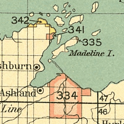 Snippet of map showing Chippewa reservations in Wisconsin, compiled for congress by American Bureau of Ethnology Smithsonian Institution.